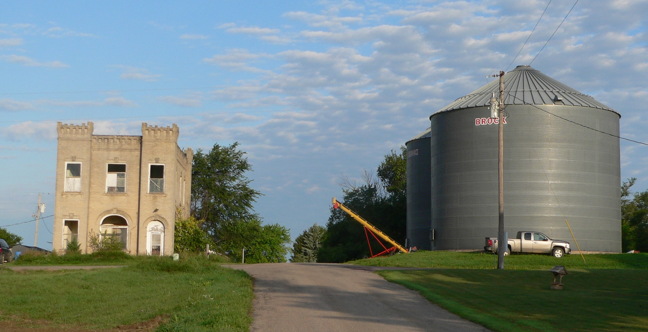 Wayne County Bank building and grain bins in Sholes, Nebraska; seen from the east.